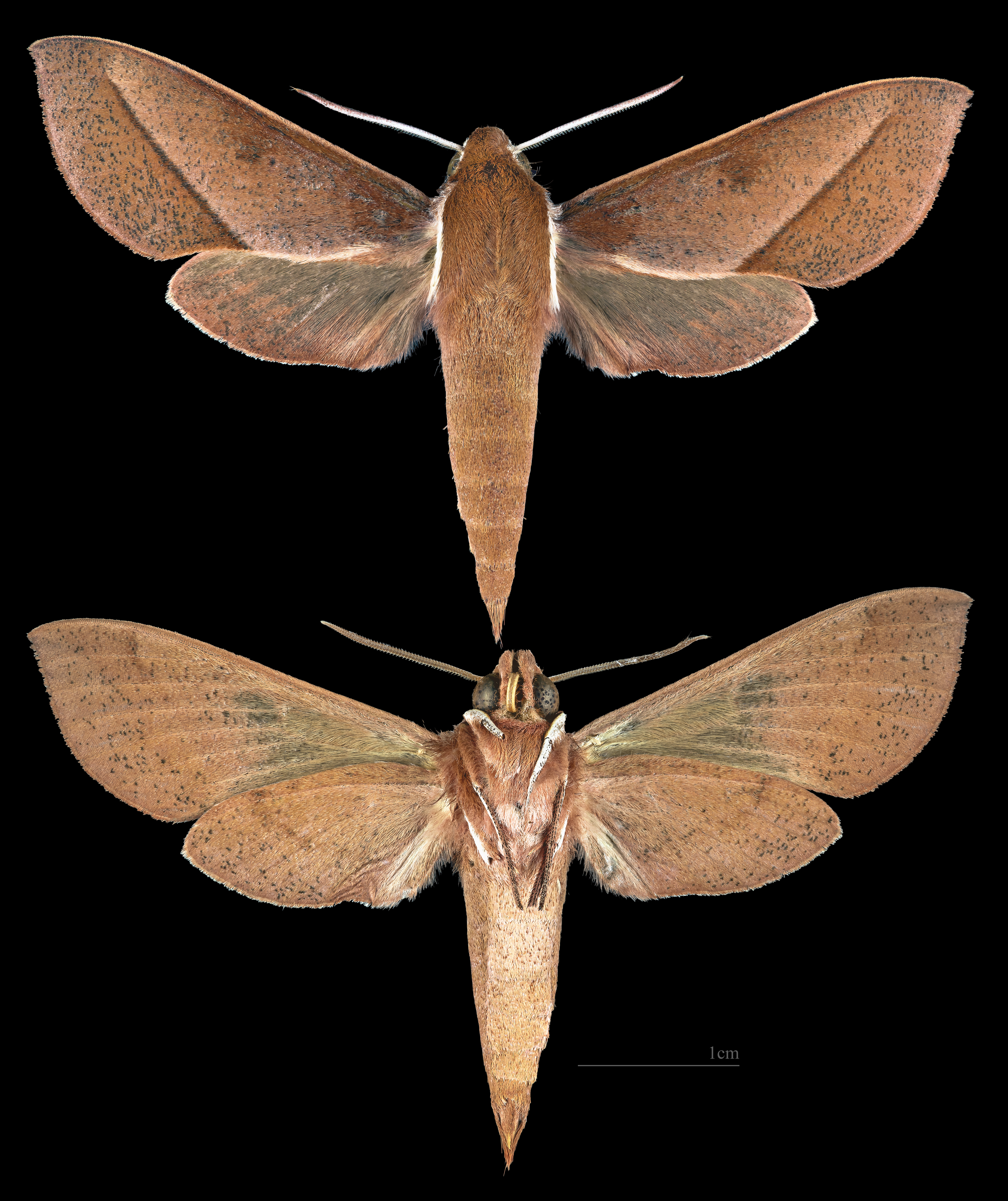 Xylophanes irrorata - Two views of same specimen Collection of the Mathematician Laurent Schwartz